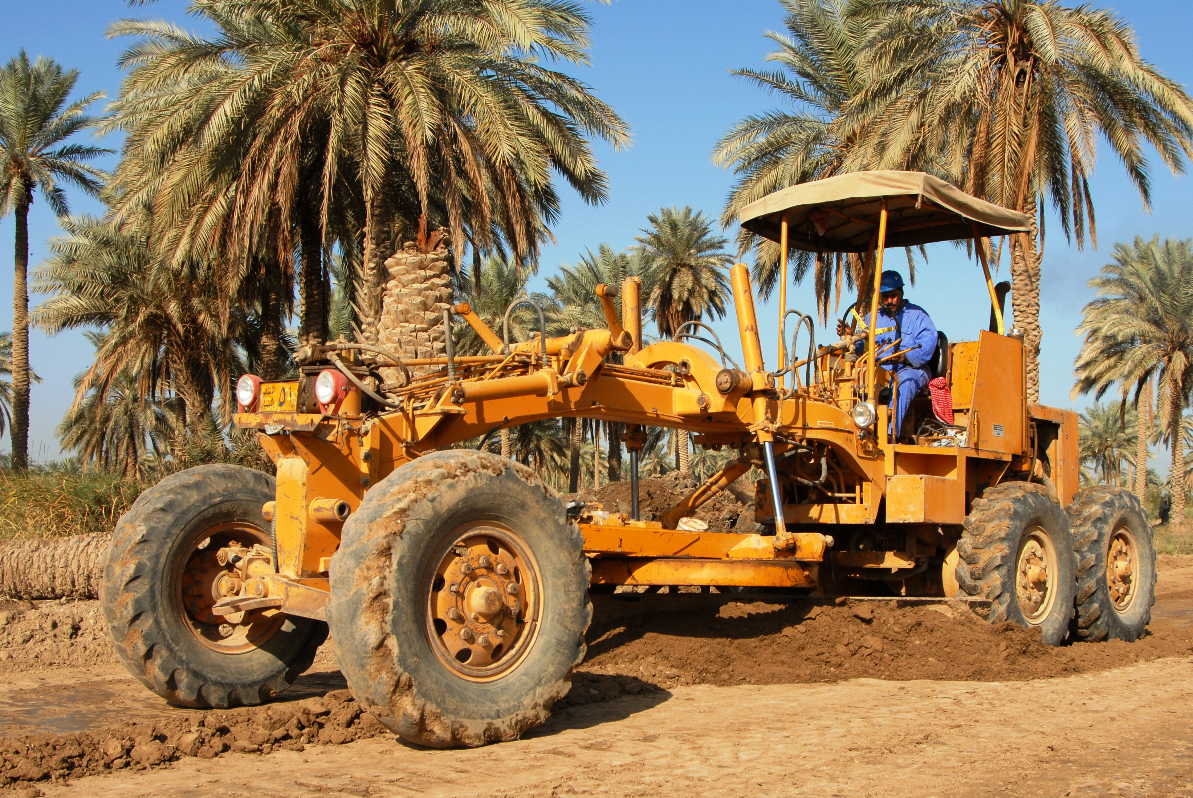 An Iraqi worker operates a grader to grade the soil prior to paving at the site of a new road in Hillah, Iraq, November 26, 2008.